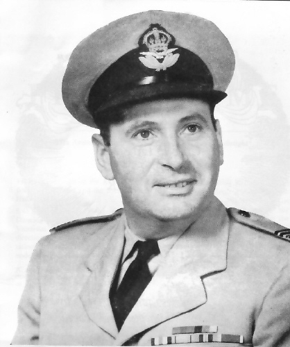 Portrait of Squadron Leader L. H. Hicks, L.R.A.M, A. R. C. M.